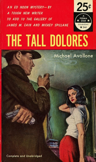 Cover of "The Tall Dolores" by Michael Avallone. Illustration by Daniel Schwartz.